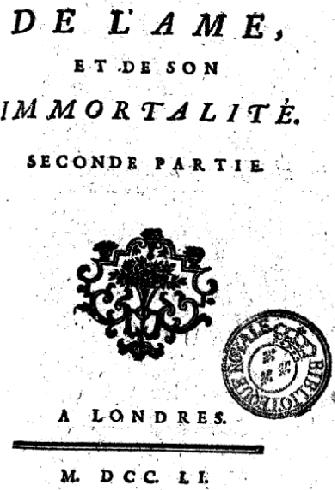 Page 2 of: Jean Baptiste de Mirabaud: De l’âme et de son immortalité